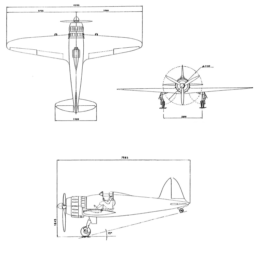 three views of Caproni Vizzola F.5